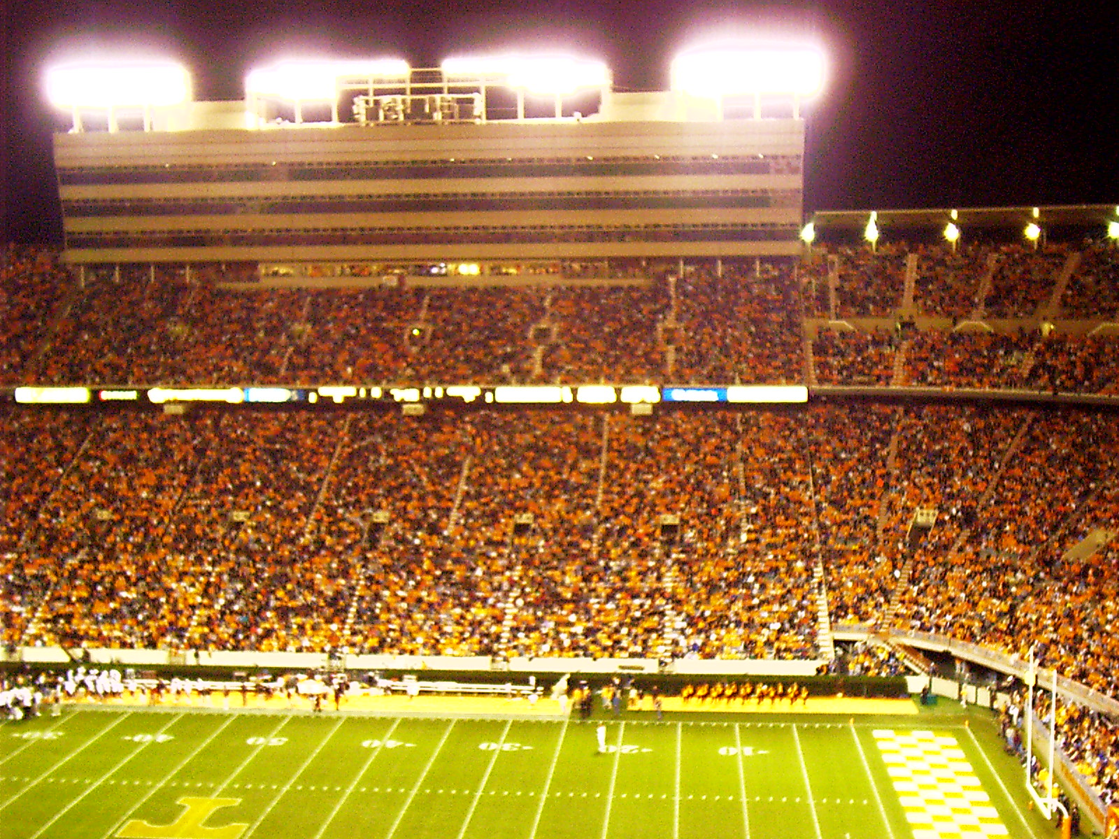 This picture was taken during the South Carolina-Tennessee game on October 29, 2005 by Randall Stewart.